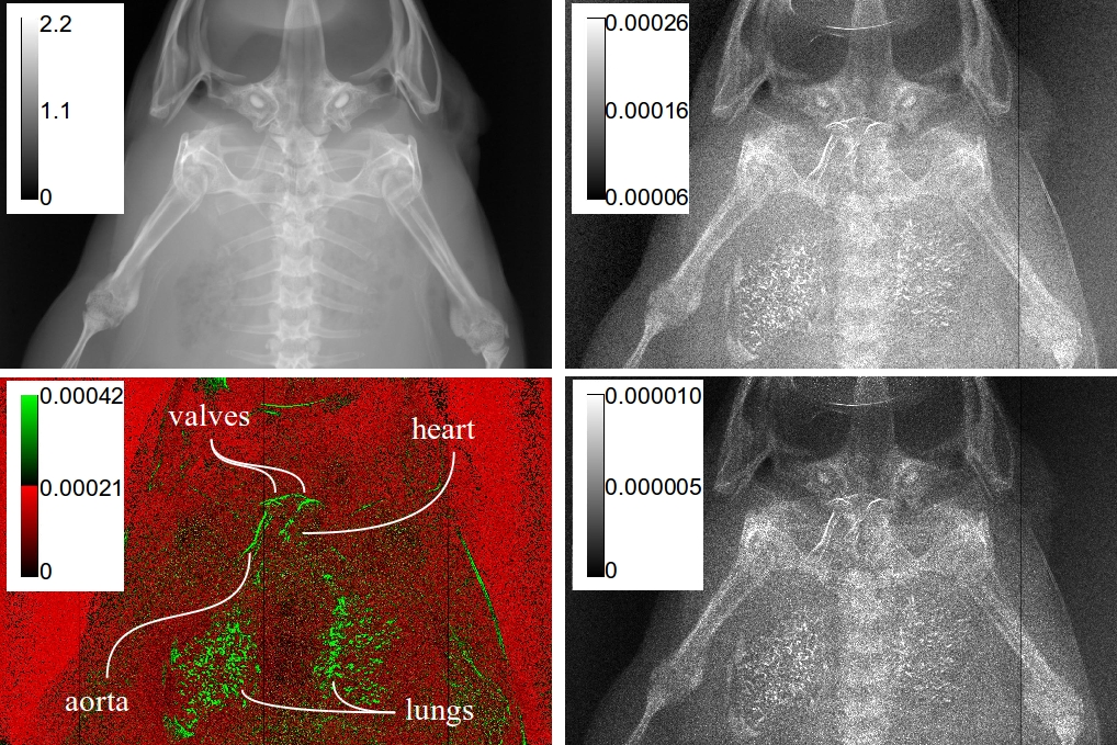 The kinetic image, static image and error images of a frog Upper row, left side: the "static" image: The static image practically only shows the bones, since frogs have very low soft tissue contrast. Lower row, left side: the "kinetic image, with a red-green coloured look-up-table applied: the movement of the heart, the heart valves, the aorta, and the alveoli of the lung can be seen. Apparently, the throat of the frog also moves as the animal breathes. Upper row, right side: the error image of the "static" image. Lower row, right side: the error image of the "kinetic" image.